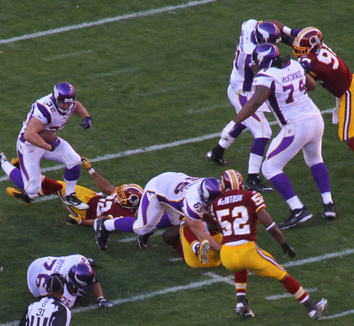 Toby Gerhart, running back for Minnesota Vikings, carries the ball in a game against Washington Redskins.